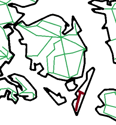 Map of railways on Funen and Langeland in Denmark with the private railway Langelandsbanen in brown.